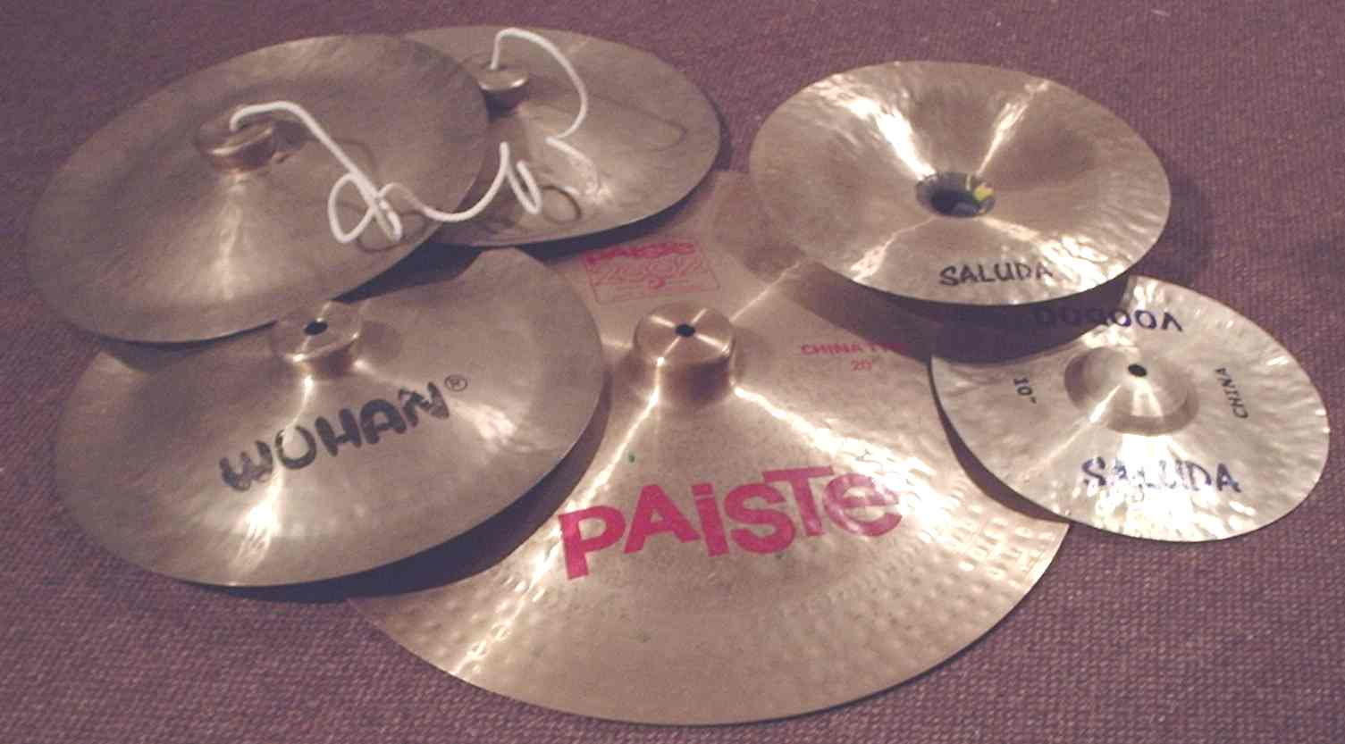 This is an original photo by Andrew Alder, taken June 2004, of cymbals from the photographer's personal collection. Cymbals shown, clockwise from bottom centre: Paiste 2002 20" china type, B8, made in Switzerland Wuhan 14" china type, B20, made in China 14" china clash cymbals from Lark in the Morning (who call them 11" in their catalog), brass, made in China Saluda Voodoo 12" china type, B20, made in the USA Saluda Voodoo 10" china splash, B20, made in the USA